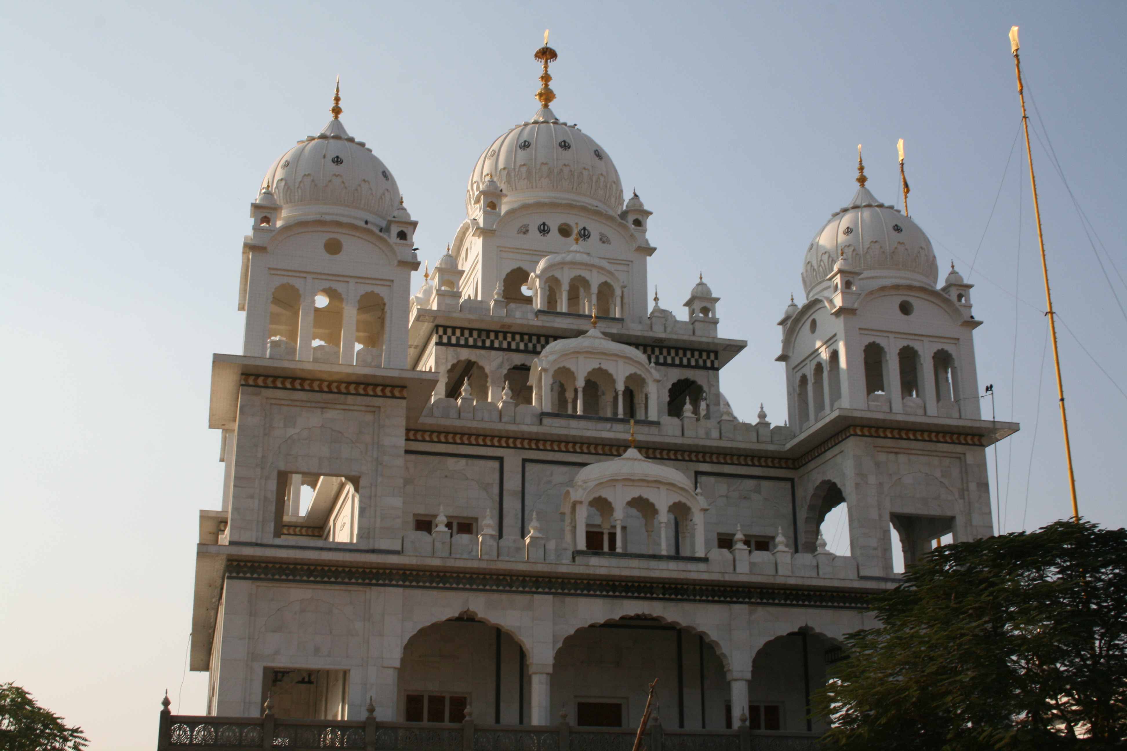 Pushkar, India